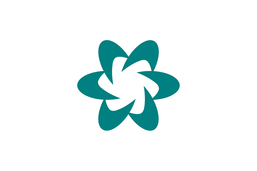 Flag of Tsushima, Nagasaki